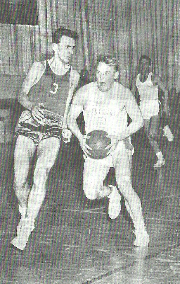 Seppo Kuusela playing against Sweden